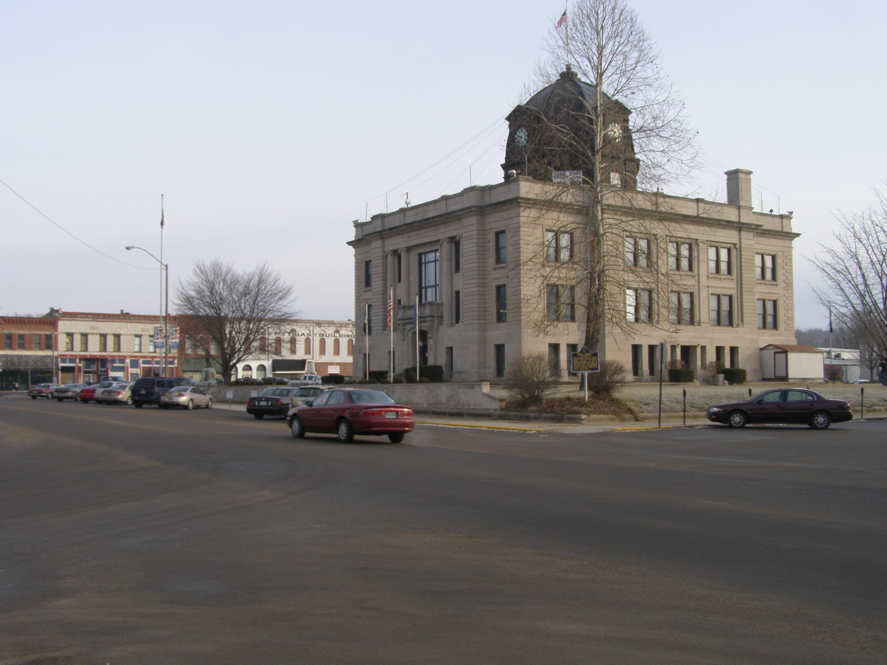 Owens County Courthouse, Spencer, Indiana, USA.